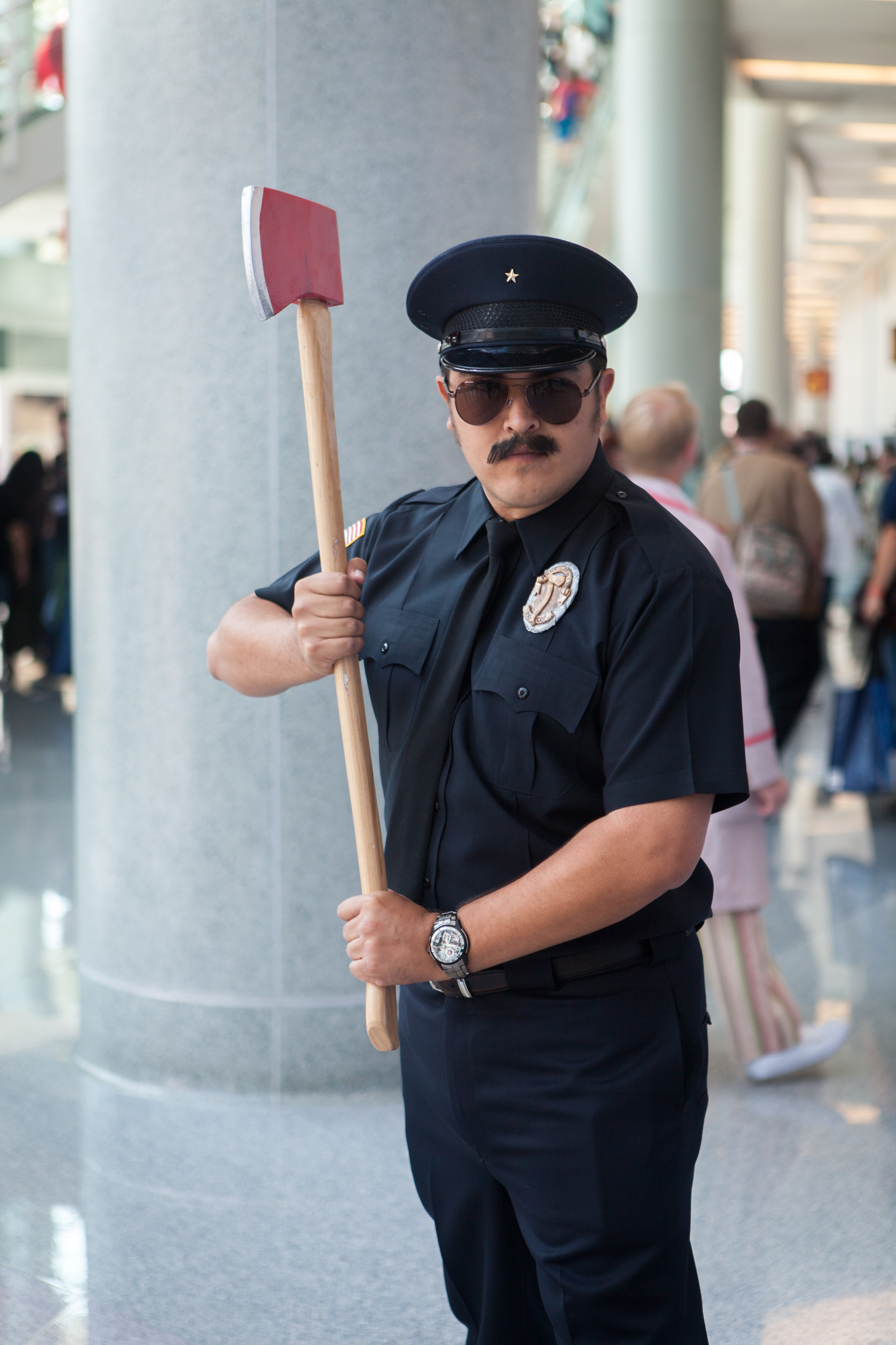 Wondercon 2014-7785